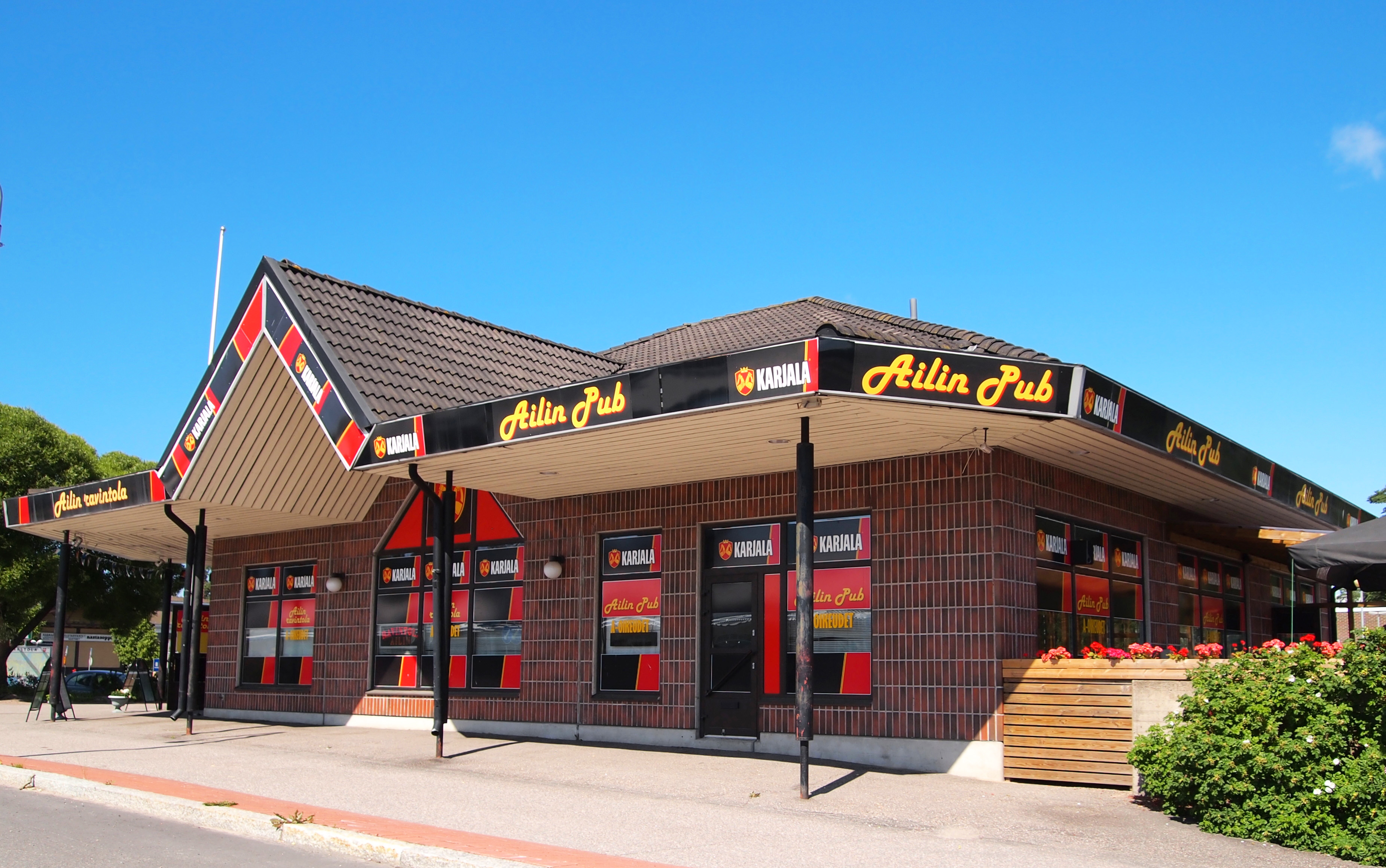 Ailin Pub building in Nastola. This photograph was taken with an Olympus E-PL1